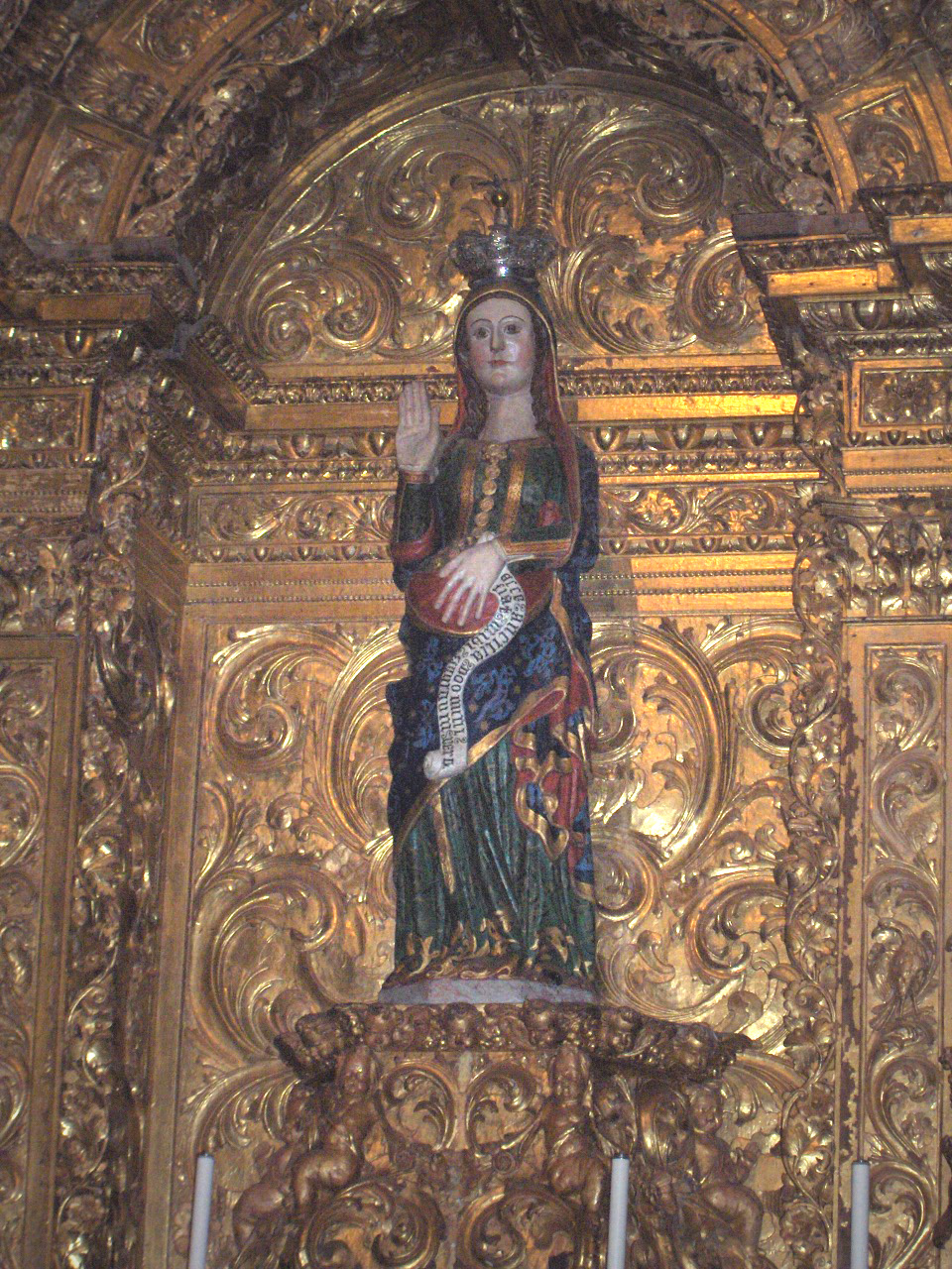 Pregnant Virgin Mary; Cathedral of Évora, Portugal